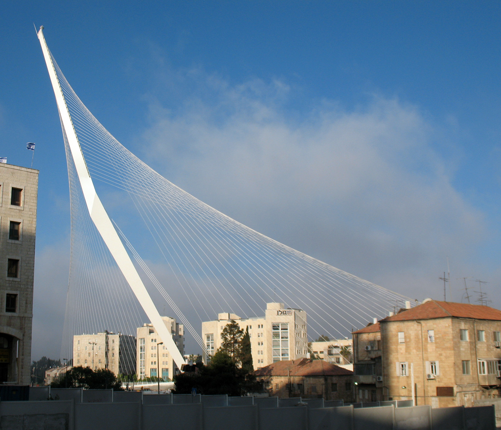 The Chords Bridge in Jerusalem, Israel. Designed by Santiago Calatrava. View from Jerusalem Gold Hotel.